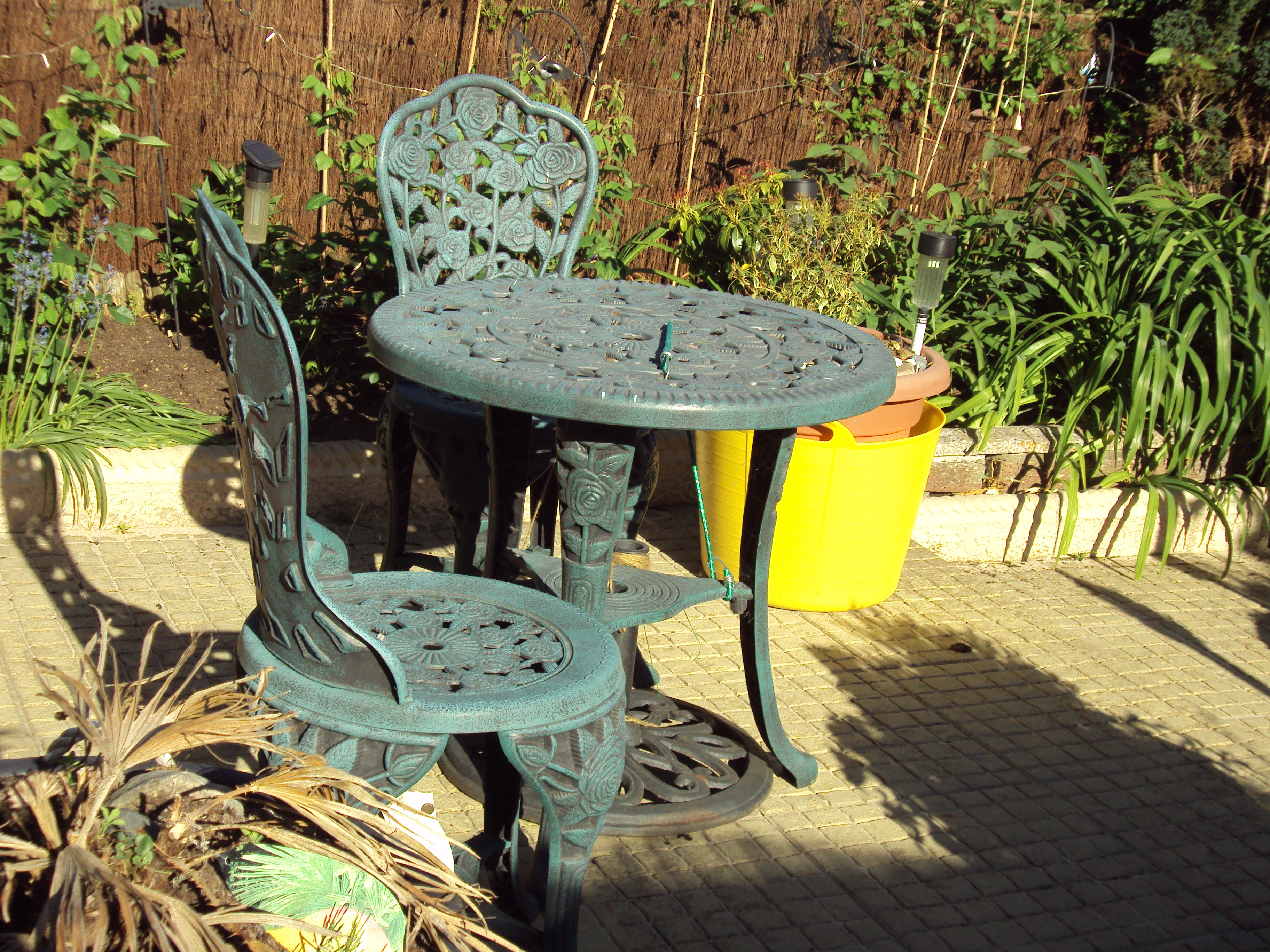 Garden chairs and table at a private garden in Oxton, Birkenhead, England.